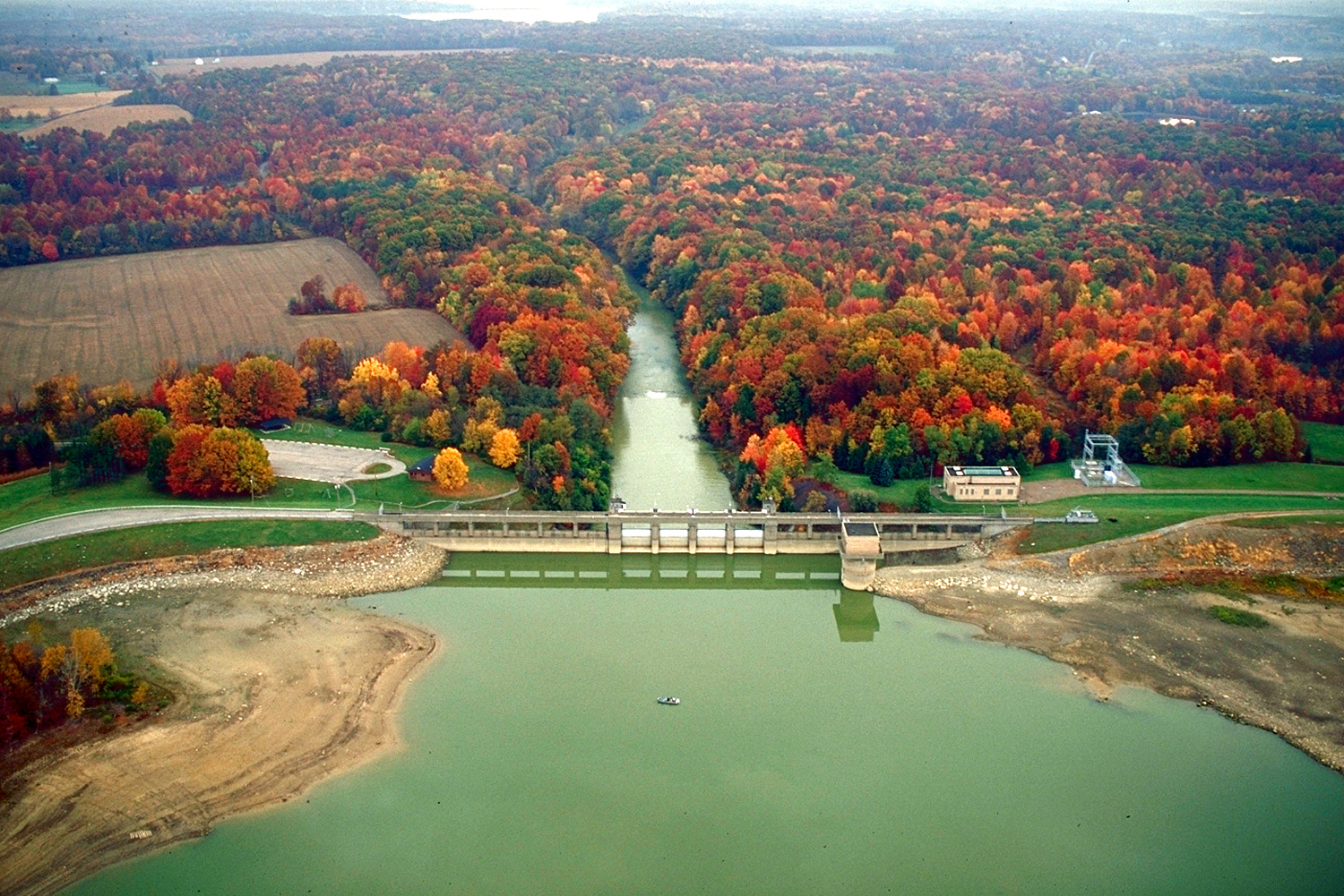 Berlin Lake and Dam on the Mahoning River in Mahoning and Portage Counties, Ohio, USA. The dam is located about 35 miles (60 km) southwest of Warren, Ohio. The dam was constructed by the U.S. Army Corps of Engineers for flood control on the Mahoning River. Lake Milton can be seen in the far distance to the north-northwest.